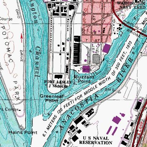 The Buzzard Point area in Washington, DC, USA; detail of US Geological Survey 7.5 sec topographic map